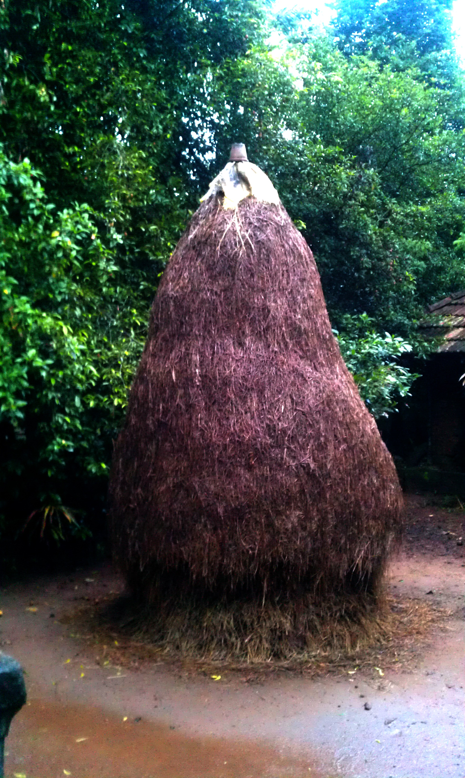 KeralaHaystack